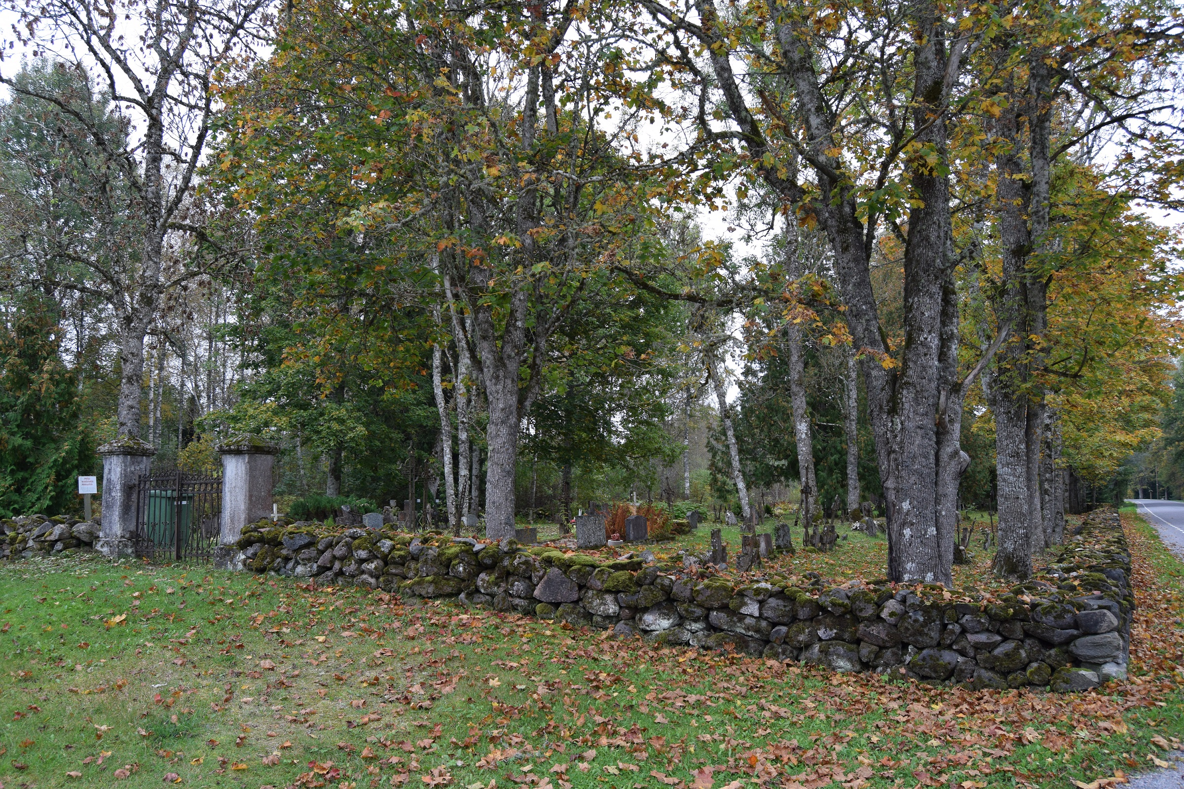 Piirsalu old cementery